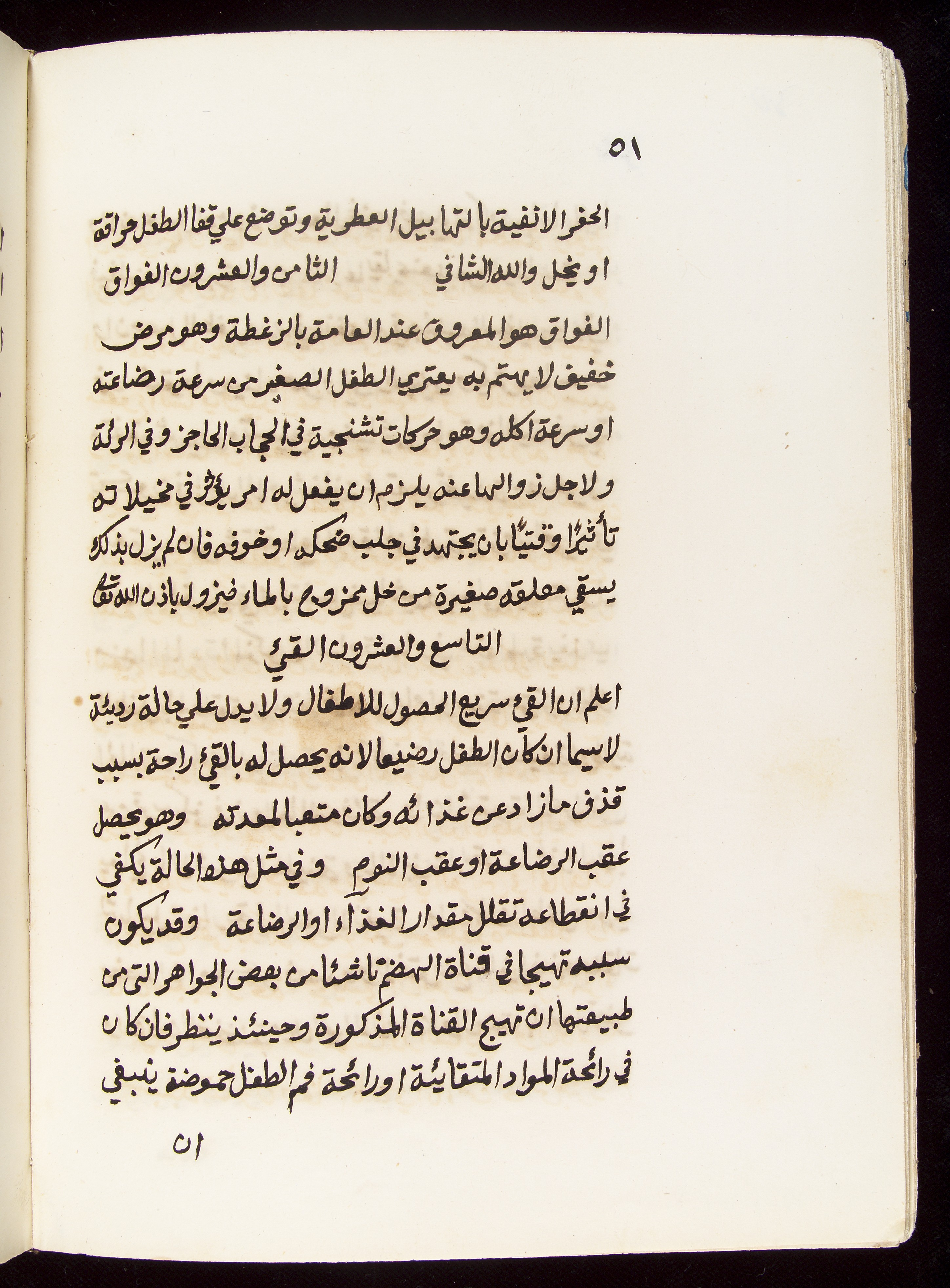 Page from an Arabic Text Asian Collection Keywords: Arabic